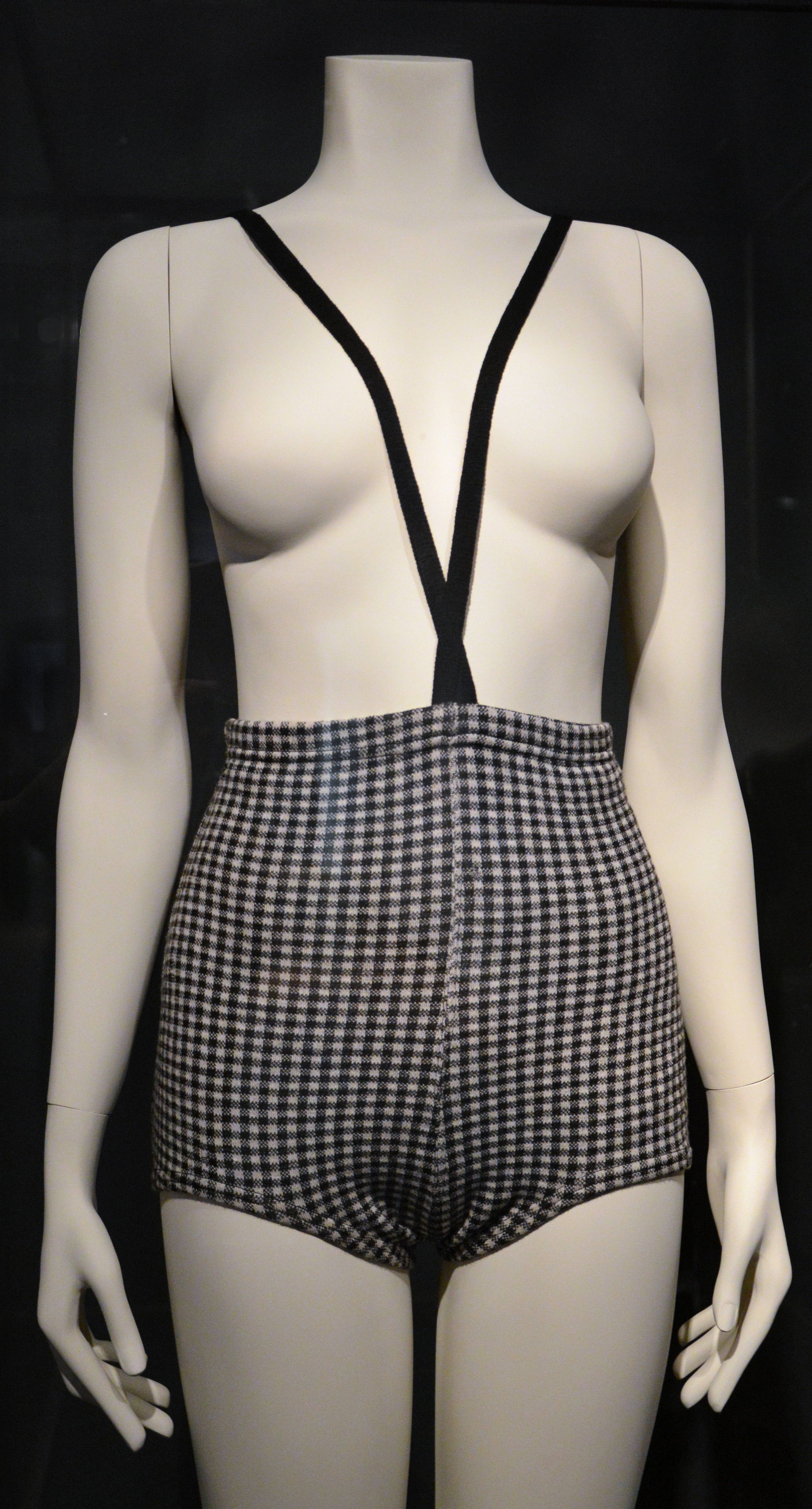 Bathing costume of wool, designed by Rudi Gernreich, United States, 1964. Collection of Victoria & Albert Museum. Exhibited at Modemuseum Hasselt, 2017-2018. Rudi Gernreich was the first designer to design and have manufactured a topless bathing costume. The design caused great controversy and generated a massive amount of publicity and notoriety for the designer. It was modelled by Peggy Moffitt in what has become a famous photograph.